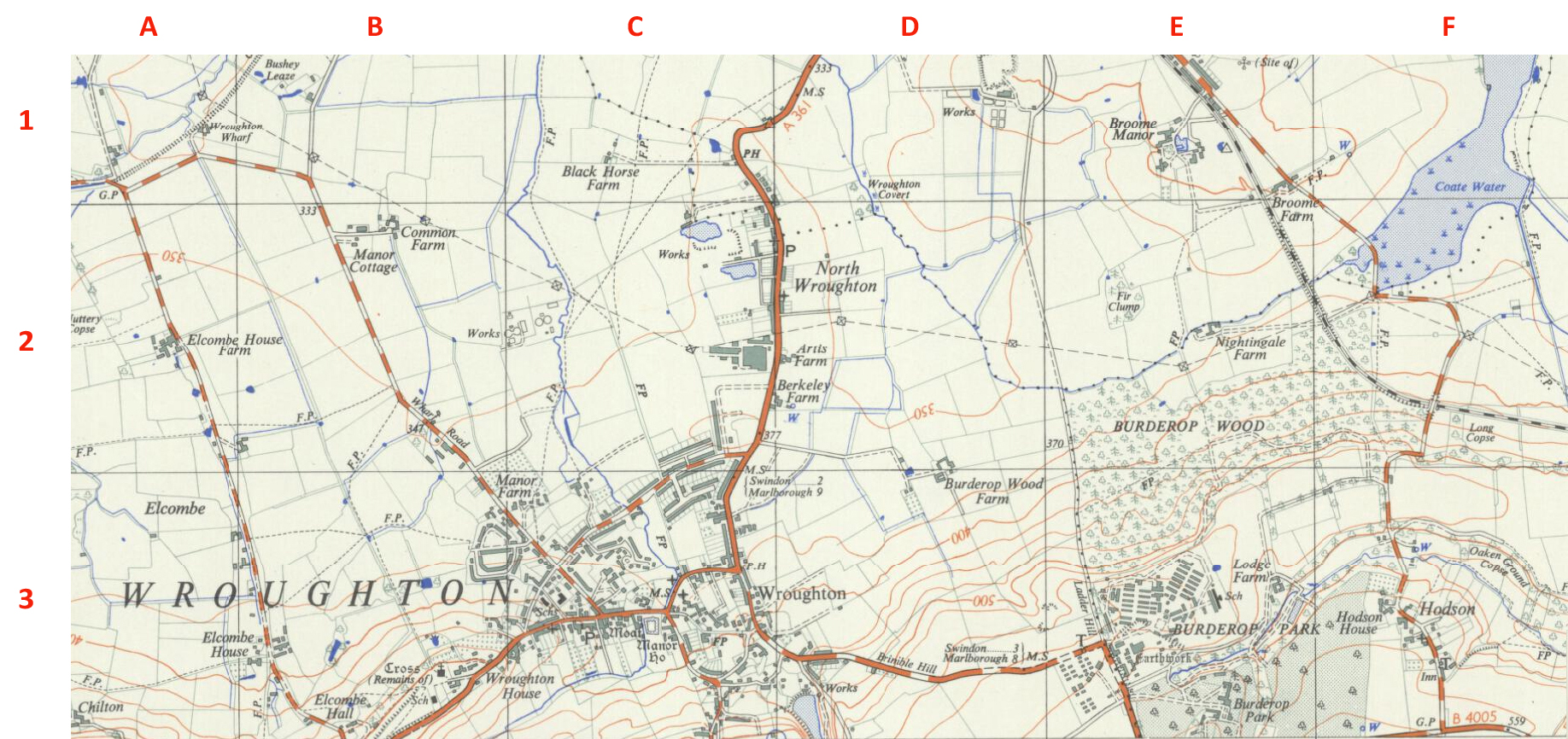 Extract from OS 1:25,000 series Map ref: SU18 Other information Copyright expired - over 50 years old Publication date 1959, therefore out of 50-year limit for Ordnance Survey map